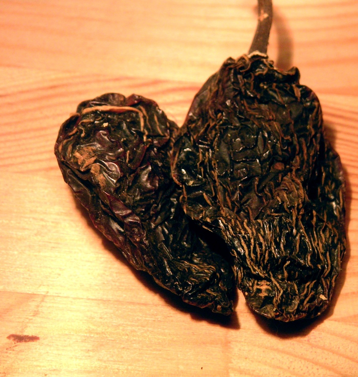 Smoke-dried fruit of Capsicum annuum cv. 'Jalapeño' (called 'Chipotle') with one cent euro coin for scale (16.25 mm).